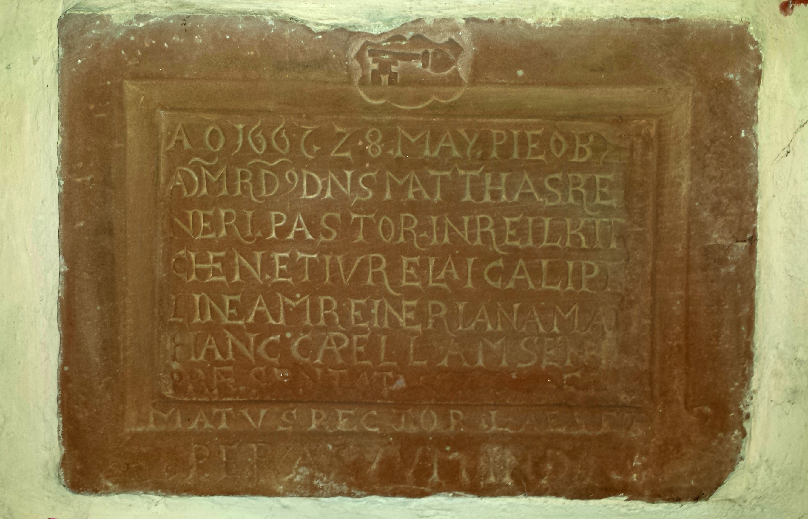 Matthias Reineri Inscription board in the Magdalenen Chapel in Senhals